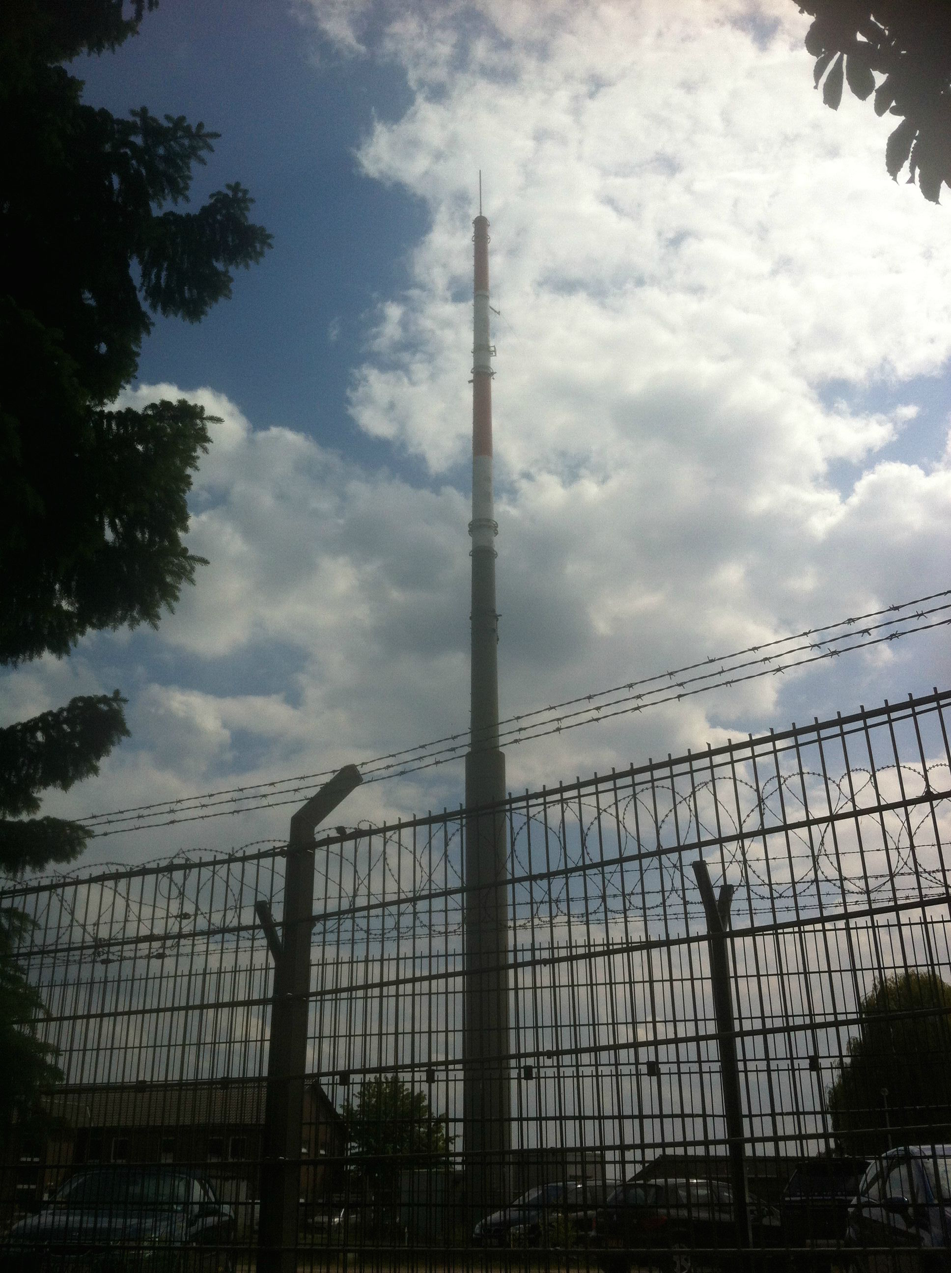 This part of germany, call it "bloody island", is posessed by BRITISHFORCES.